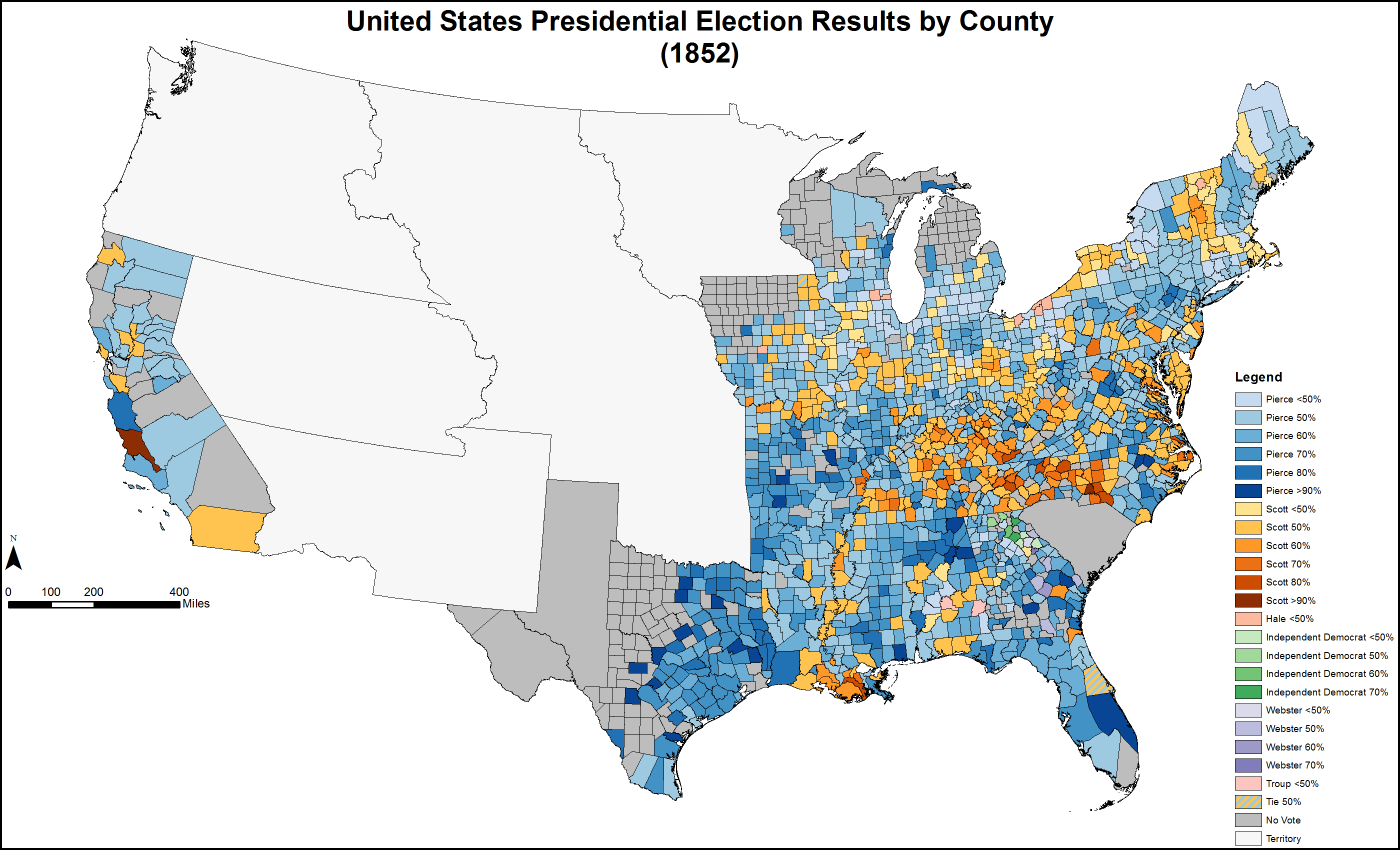 Presidential election results by county (1852). Colors based on Colorbrewer 2.0.